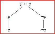 Captura algebra para la edificación